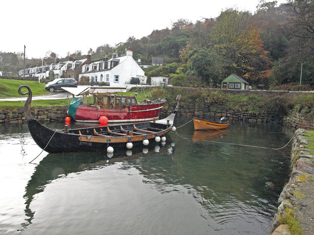 Corrie Harbour, Arran A Viking Longship in the harbour. Harking back to medieval times in Arran's history.